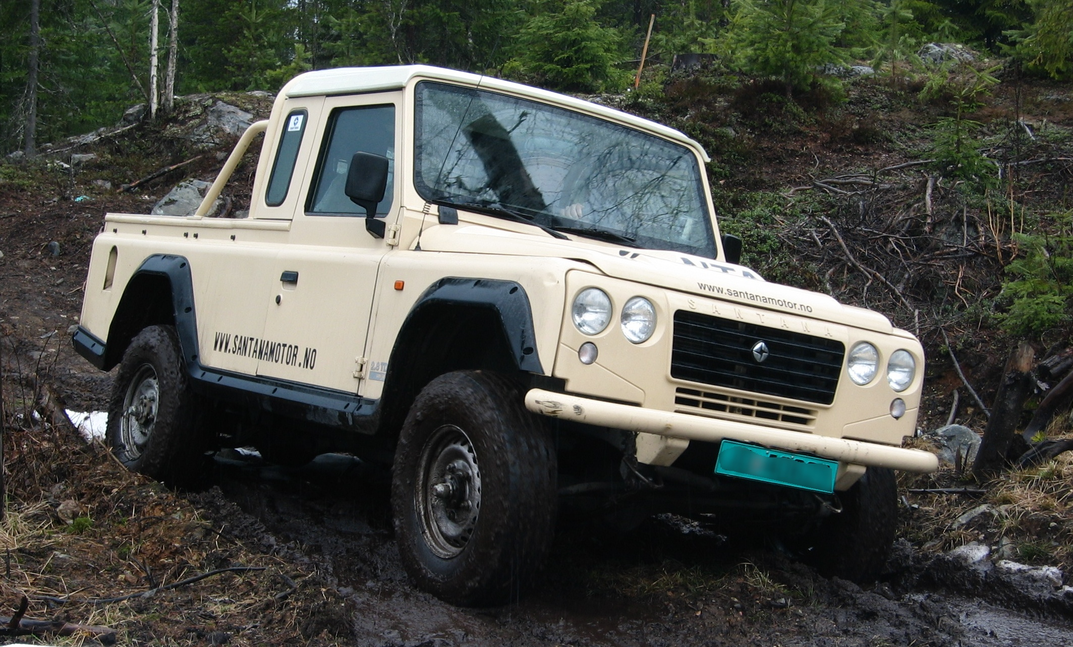 A Santana PS-10 pickup, probably a 2005 year model, in Lampeland, north of Kongsberg, Norway.